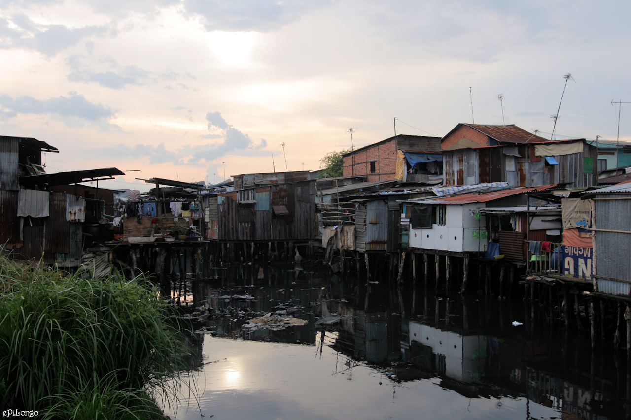 Slums by a canal in Ho Chi Minh City.